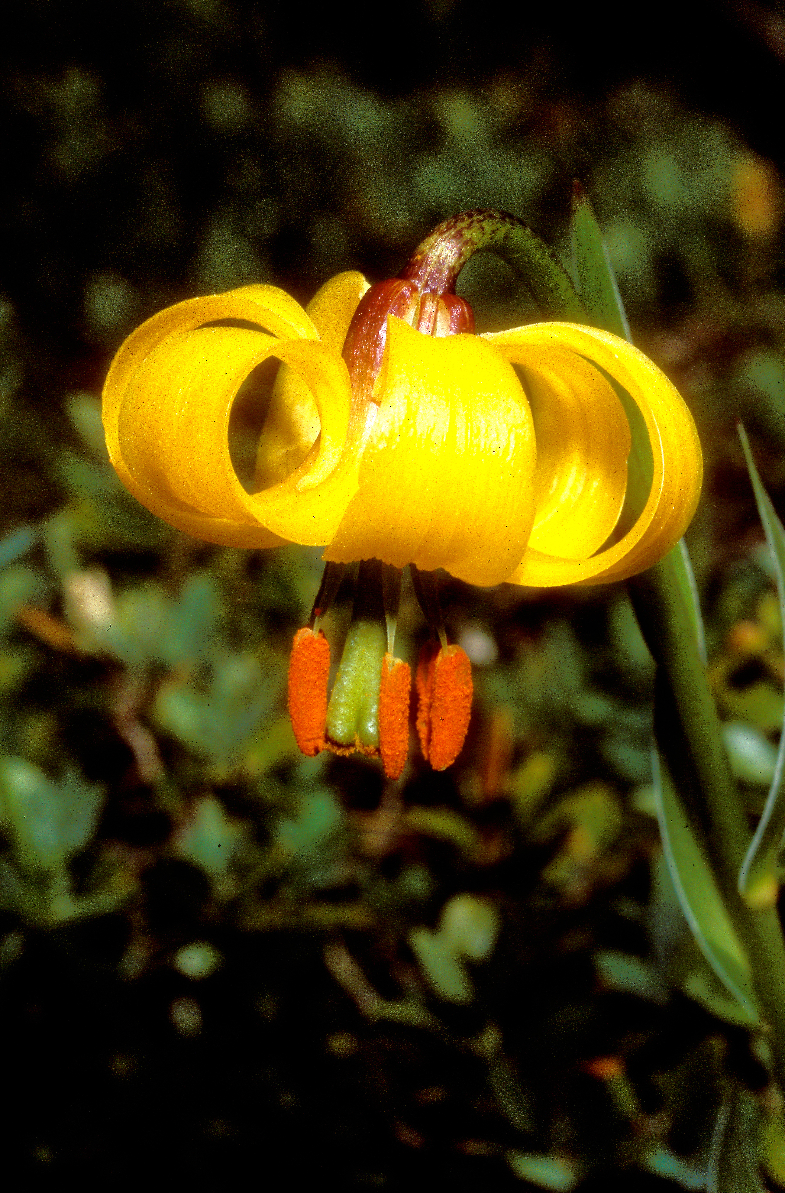 Lilium albanicum in habitat at Katara pass, Greece